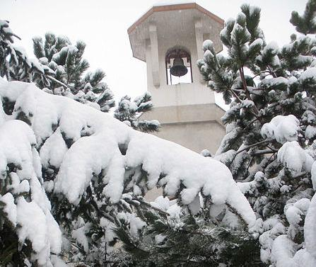 Church of St. Dominik Savio in Mužlja in snow with three generations of cooperators: worker, kantor and sacrestan: grandmother, granddaughther and her daughter